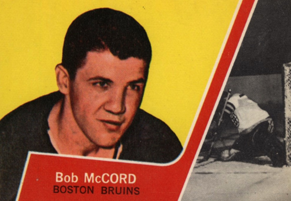 Bob McCord